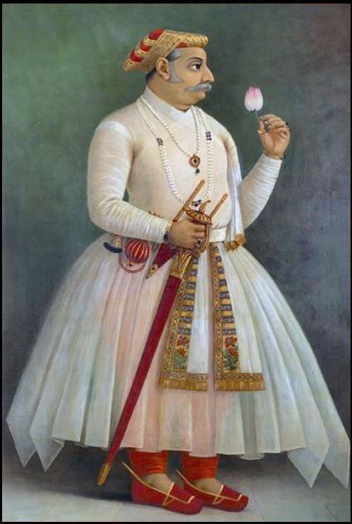 Painting of Maharana Raj Singh - I of Mewar (1652 - 80) based on miniature made available to artist from palace.